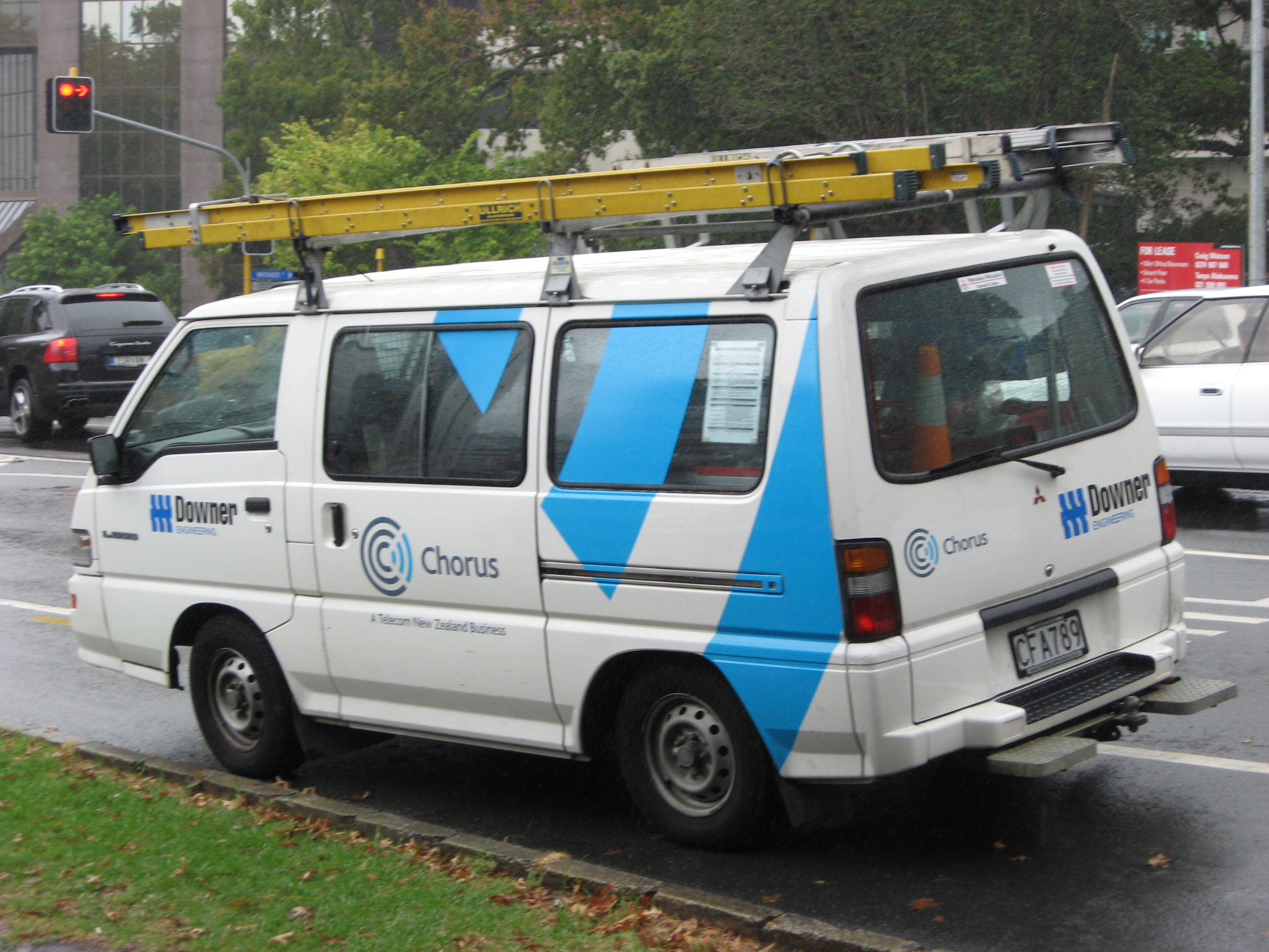 Telecom New Zealand Chorus Mitsubishi Delica L300 van